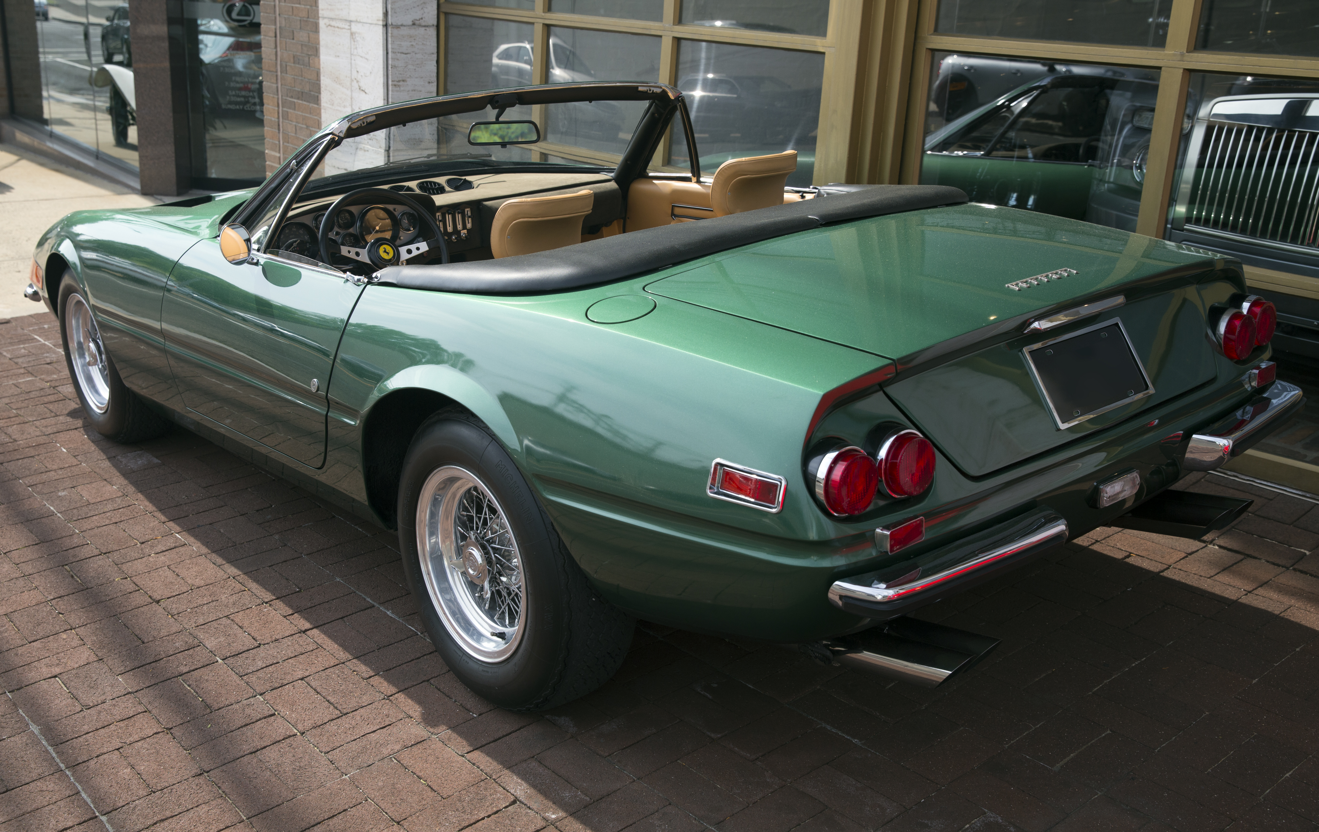 1973 Ferrari 375 GTS/4 Daytona Spyder in beautiful Verde Pino with beige interior. Original US-specifications, with gauges in miles, rectangular rear plate surround, side marker lights, and air conditioning. One of only two finished in this color, although the poor car suffered the indignity of having been painted lipstick red for a quarter century or so (curse you, Brian Burnett of Los Gatos, CA). Recently restored thanks to Wayne Carini.